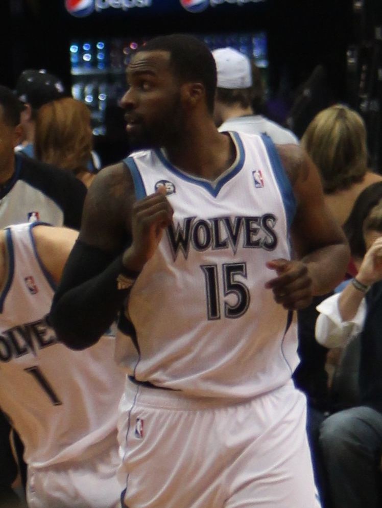 Shabazz Muhammad at the Target Center